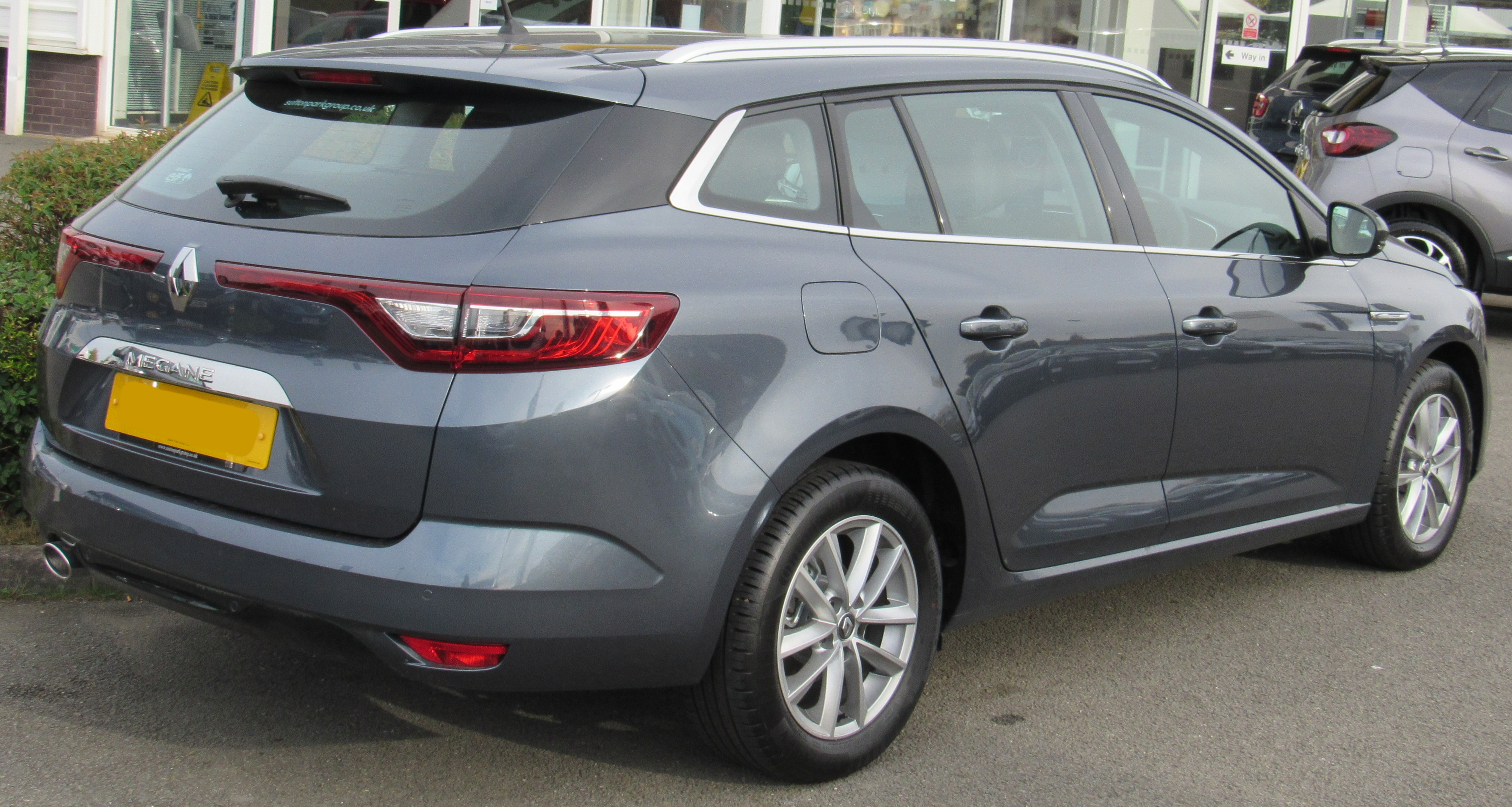 2017 Renault Megane Dynamique DCI Estate 1.5 Rear Taken in Leamington Spa